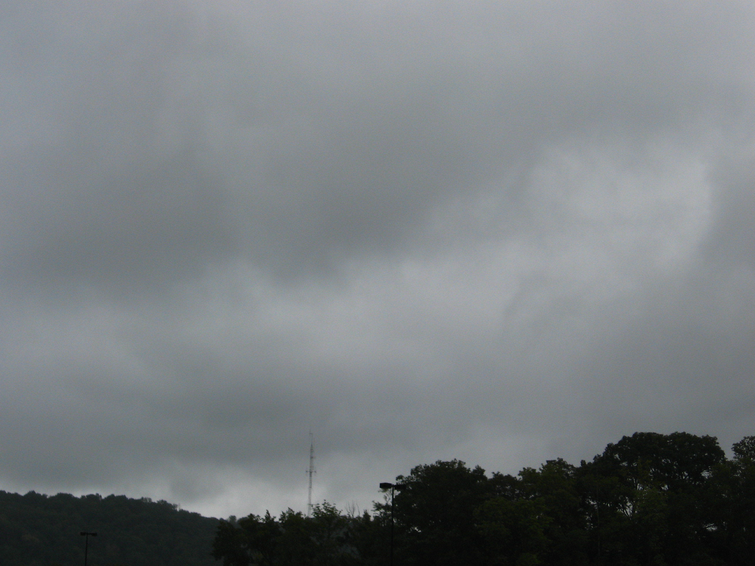 Tropical Storm Hanna's western fringes over Huntington, WV.